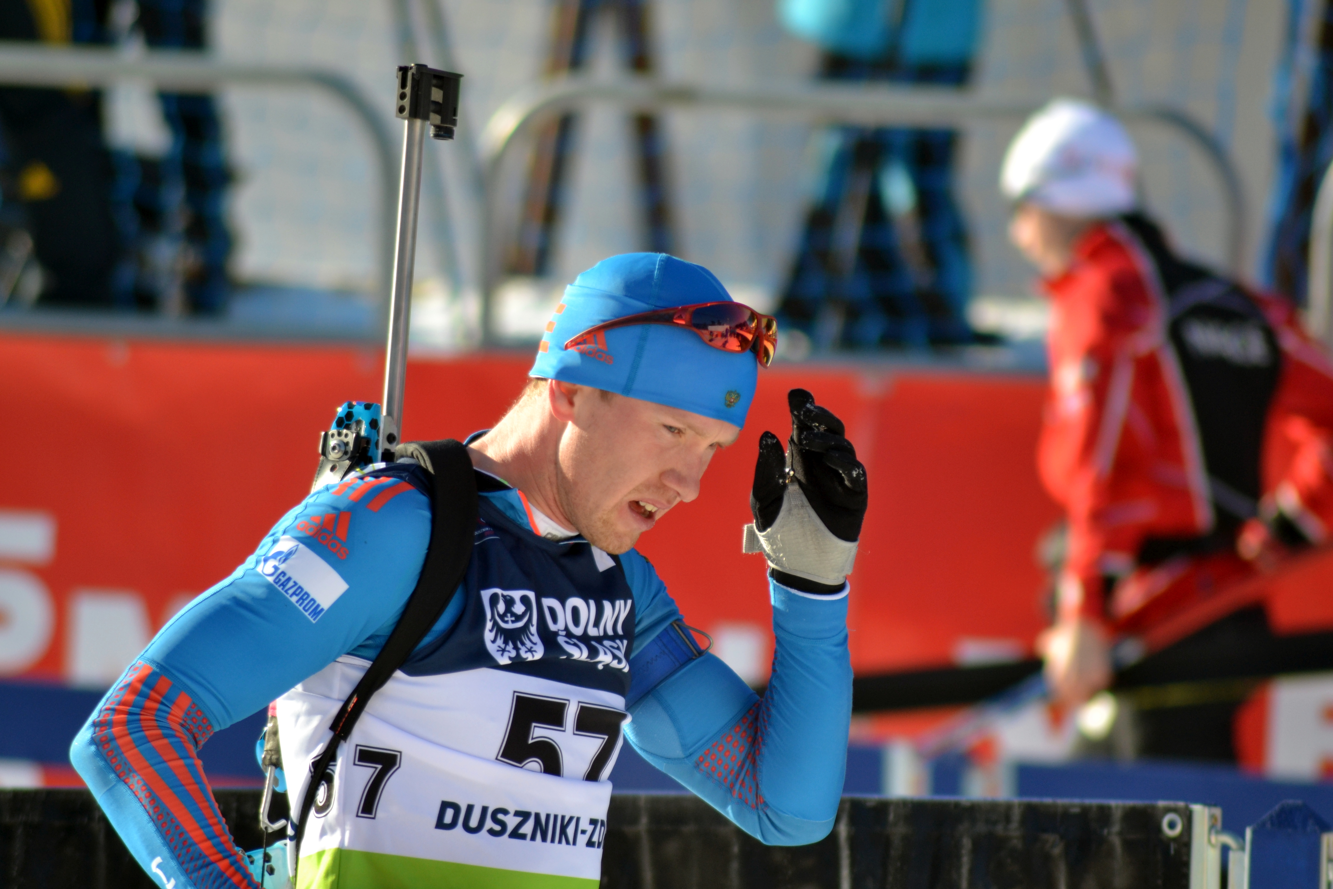 Open European Championships Biathlon 2017, Sprint Men's race, held on January 27th.